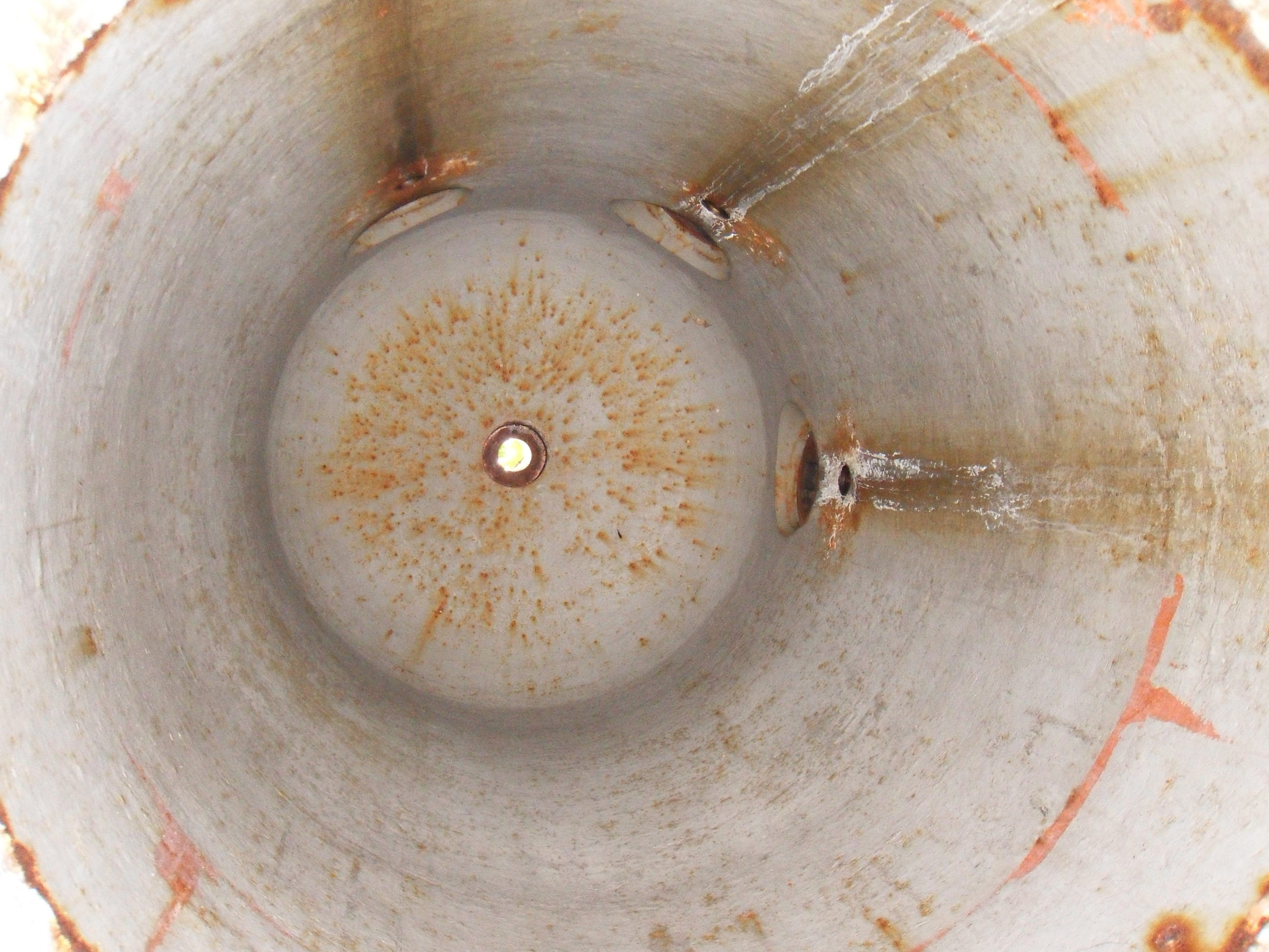 R-S 81 U obrázku infantry casemate, Rychnov nad Kněžnou District, Czech Republic